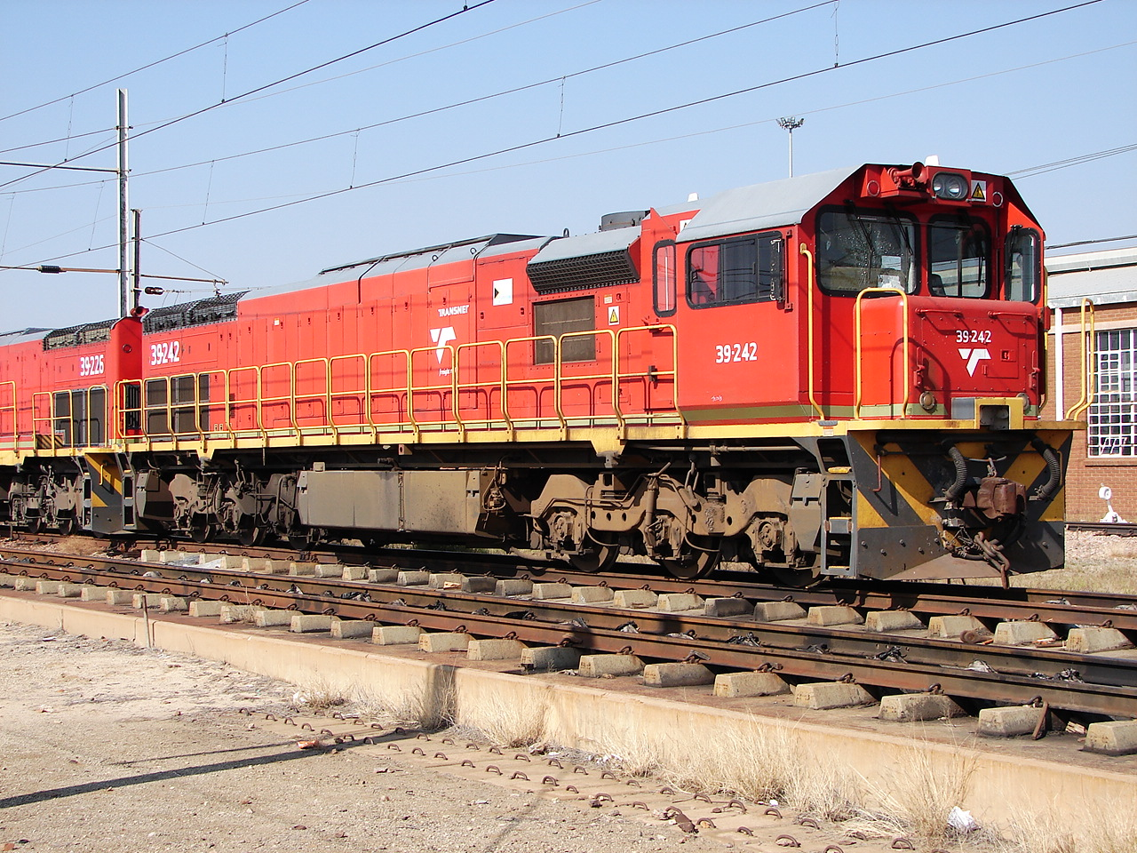 South African Class 39-200 39-242Type: EMD GT26CU-3Location: Pyramid South, Pretoria, Gauteng